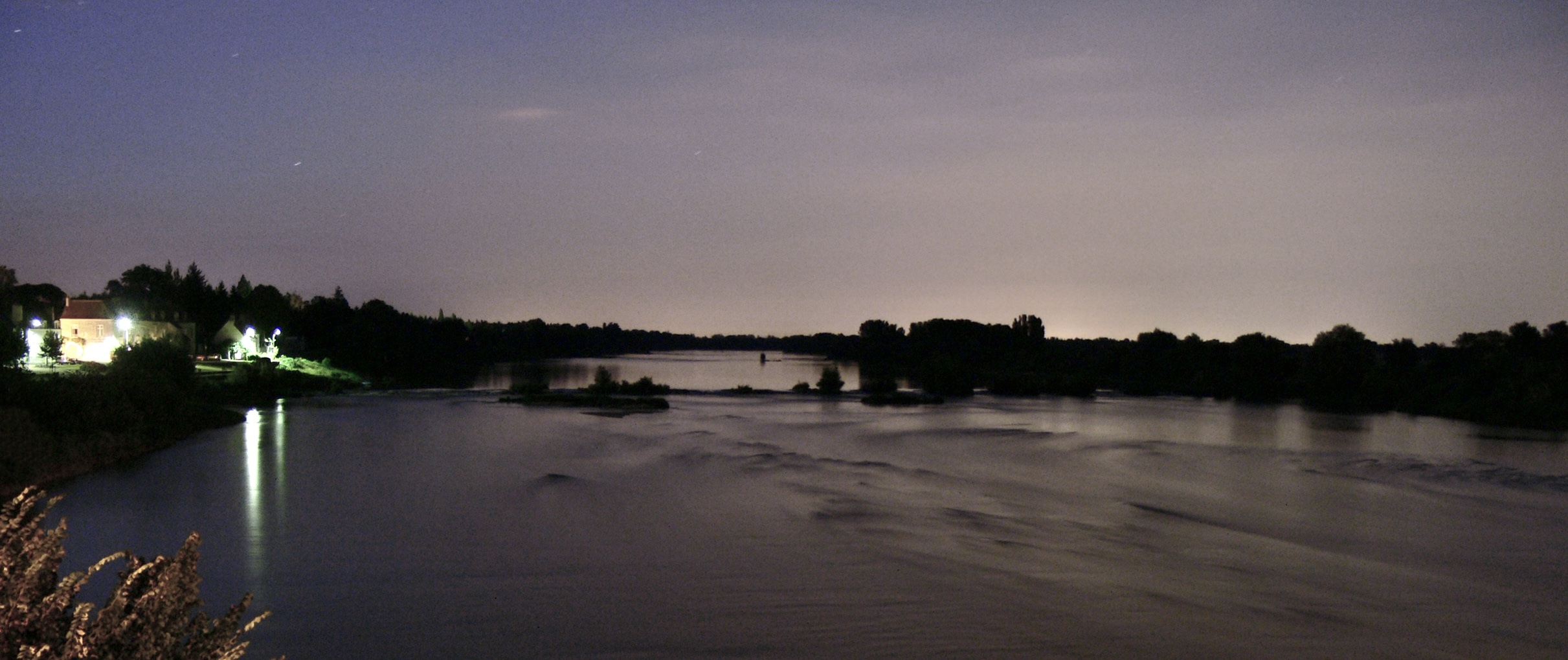 Halo of the streetlight illuminating the sky of Orleans, saw nearly 20 km downstream of the city (Pause, about 23 o'clock, above the Loire, on the deck of Meung-sur-Loire. The black line across the river, is the remainder of the bridge piers Jeanne d'Arc would have crossed the Loire. The first houses in the village are visible on the left, and the lighting of the foreground is that of the 6 lamps that illuminate the bridge over the Loire. Lighting is a source of regression or disappearance of aeroplankton.